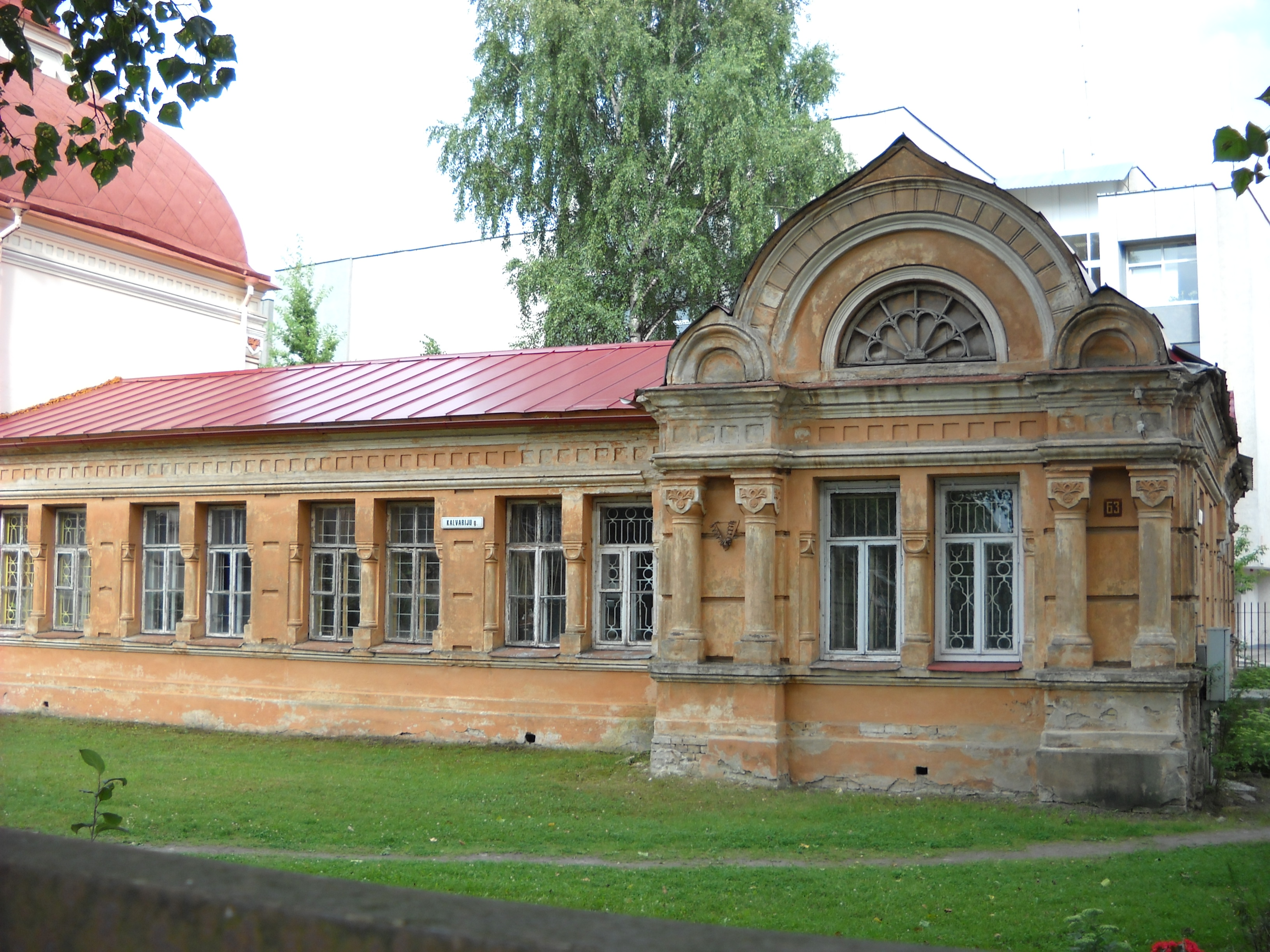 A former school building near Michael Archangel Orthodox church, Vilnius